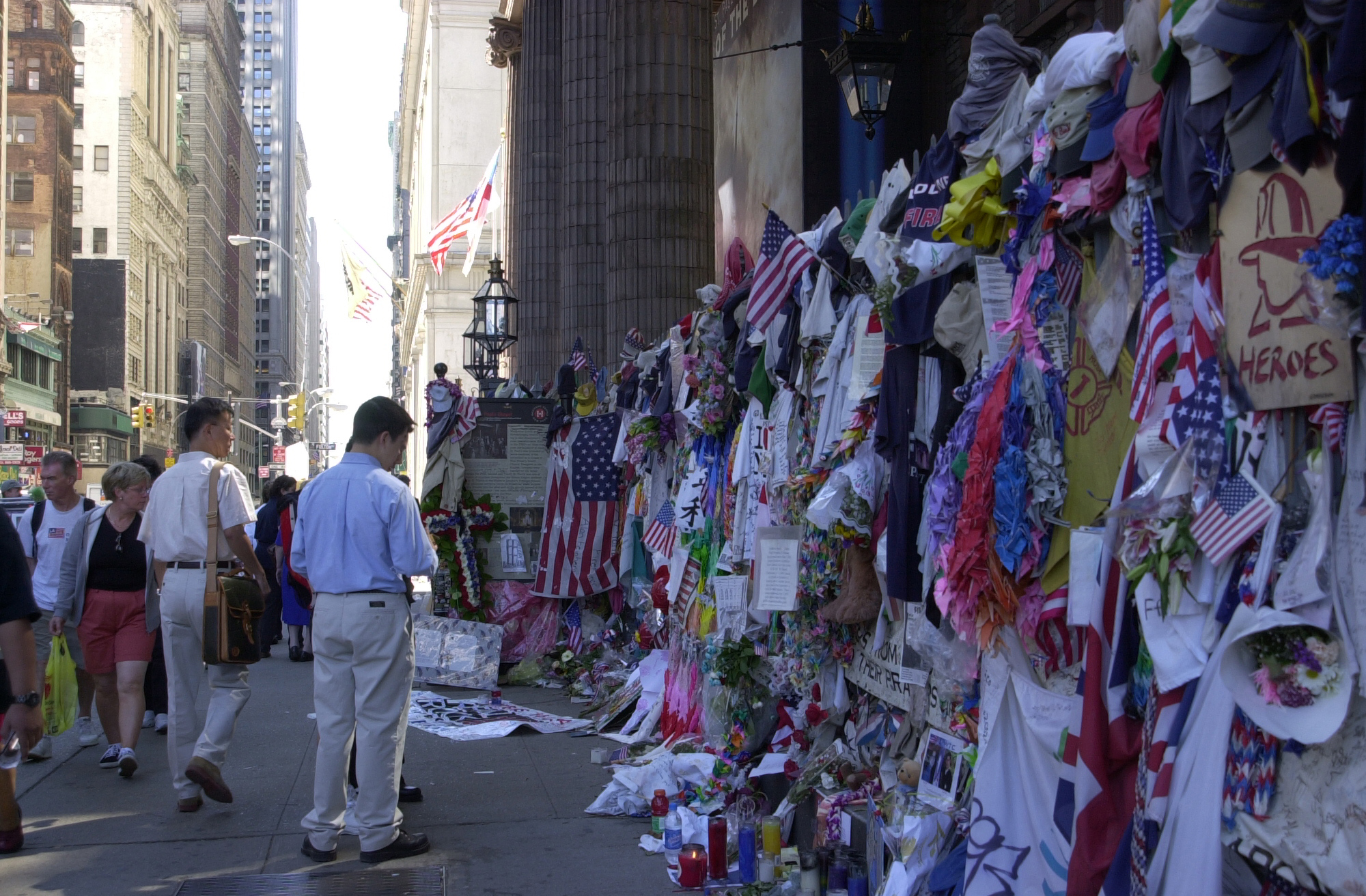 New York, NY, September 12, 2002 -- New Yorkers and tourists from all over the world stop to look at the memorials that are placed along the fence of St Paul's Church near Ground Zero. Photo by Lauren Hobart/FEMA News Photo